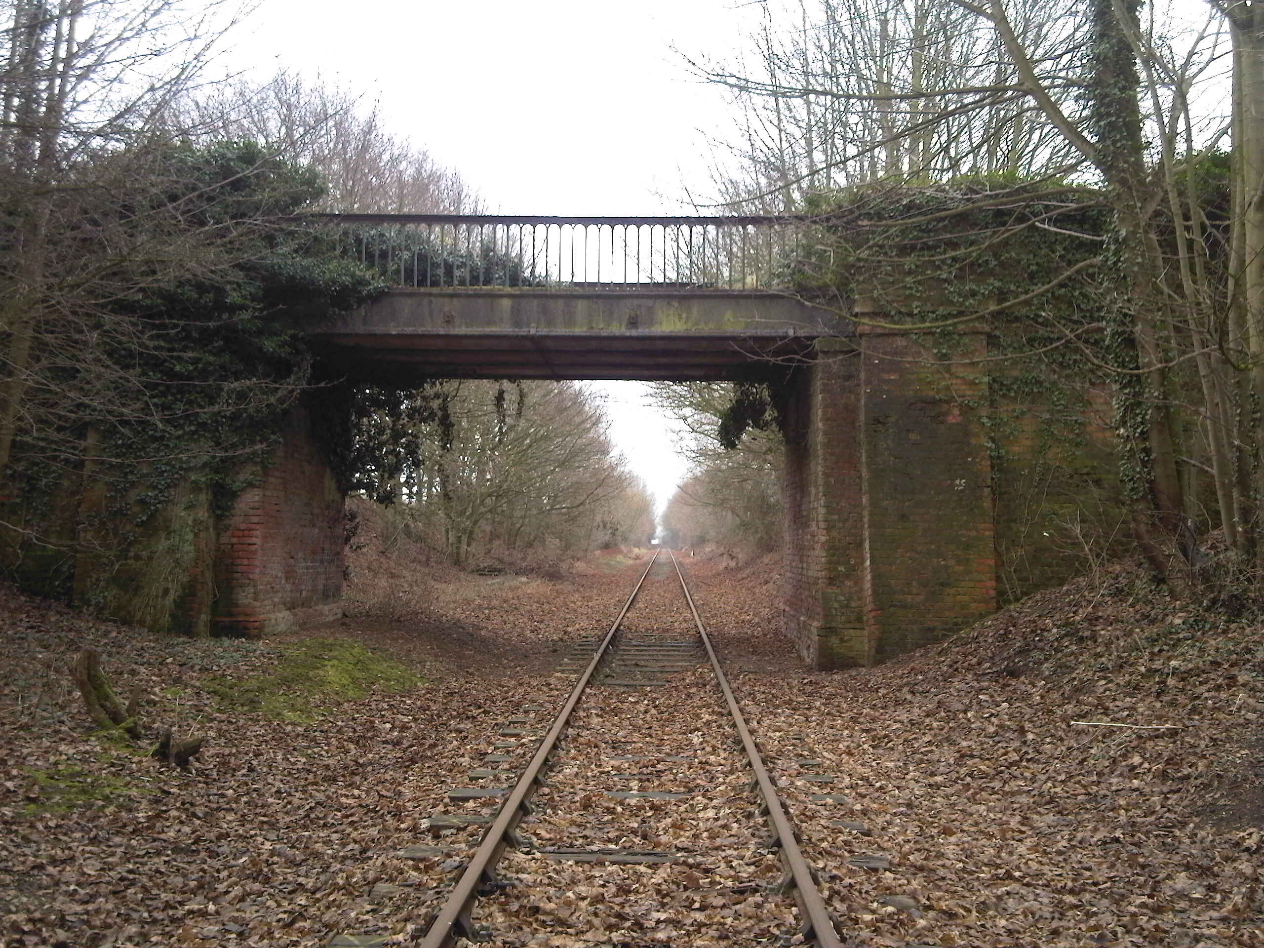 The under-restoration section of the Mid-Norfolk Railway, just North of Hoe level crossing